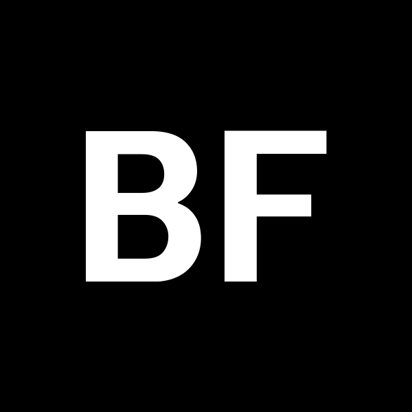 Quadro logo